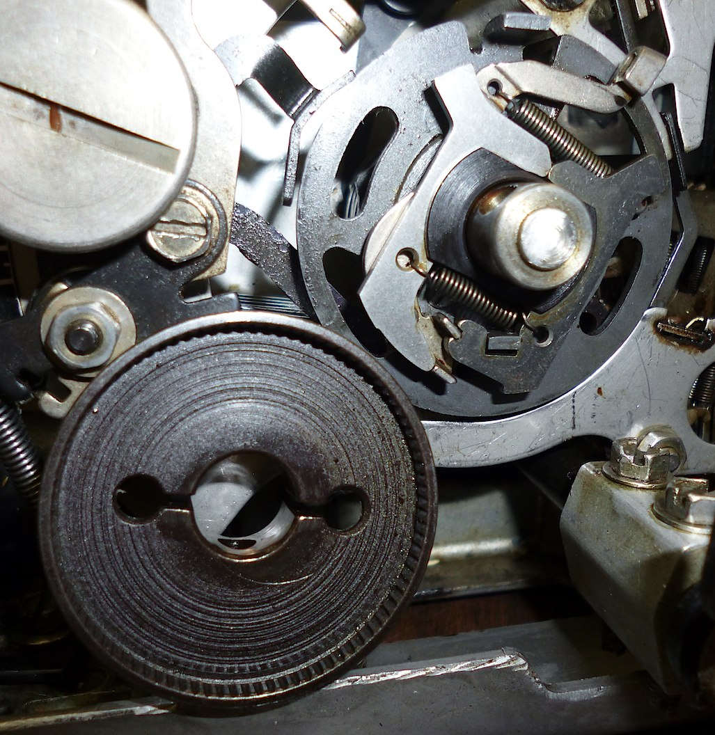 Cascaded-pawl single-revolution clutch driving cam cluster in a Teletype Model 33 that performs fully mechanical conversion of incoming asynchronous serial data to an internal parallel mechanical data bus. The clutch drum, lower left, has been removed to expose the cascade of pawls. In operation, the drum is driven while the pawl cascade drives the cam cluster.